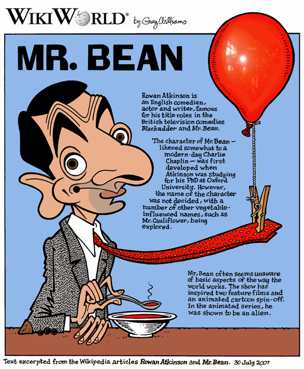 WikiWorld comic based on the articles "Rowan Atkinson" and "Mr. Bean"